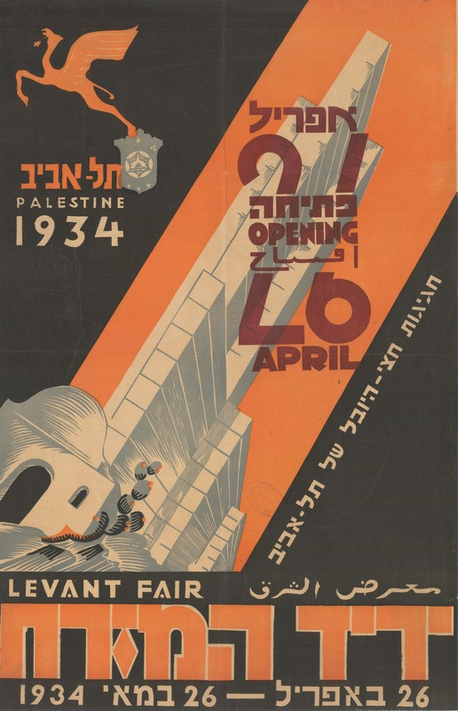 Tel-aviv levant fair